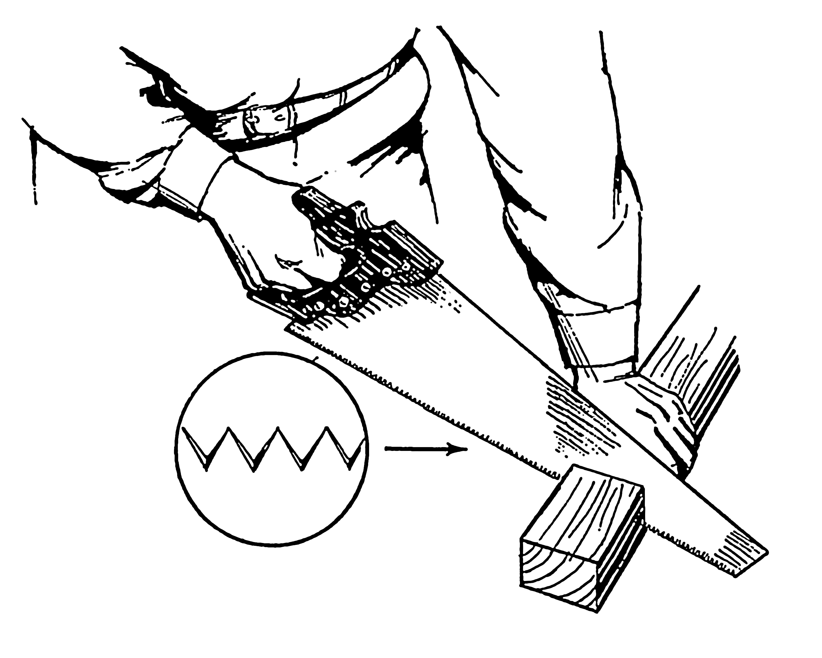 Line art drawing of a crosscut saw.